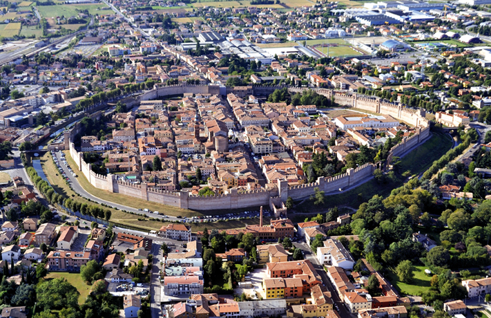 Aerial view of Cittadella, Veneto, from north